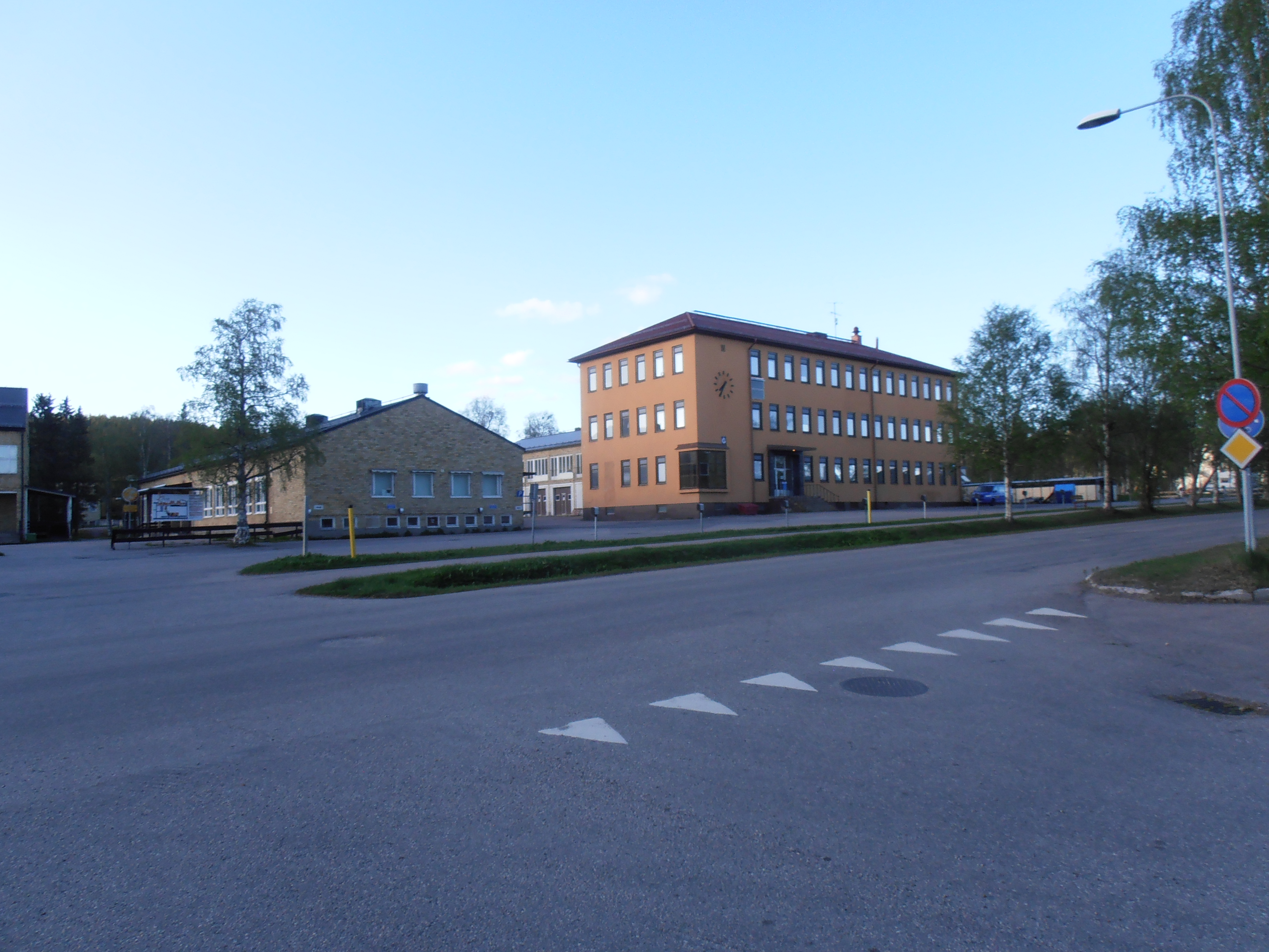 Välkommaskolan in Malmberget